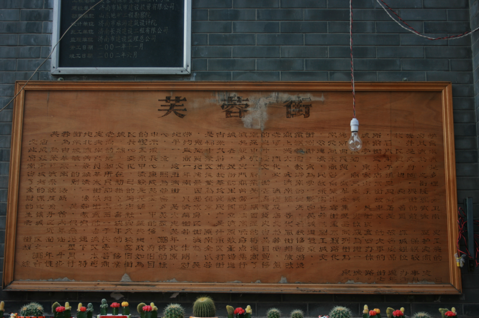 Sign giving information about the historical Water Lily Street in the city of Jinan, Shandong Province, China.